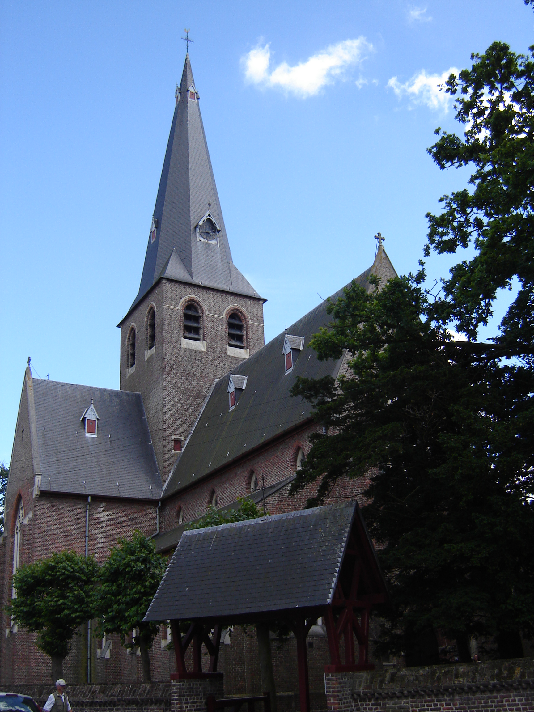 Church of the Nativity of Mary in Vivenkapelle. Vivenkapelle, Damme, West Flanders, Belgium